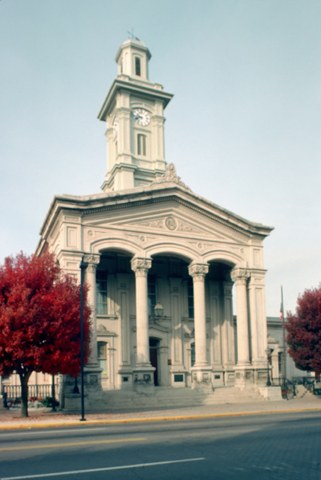 Front of the Ross County Courthouse, located at 2 N. Paint St. in Chillicothe, Ohio, United States. Built in 1858, it is a part of the Chillicothe Business District, a historic district that is listed on the National Register of Historic Places.